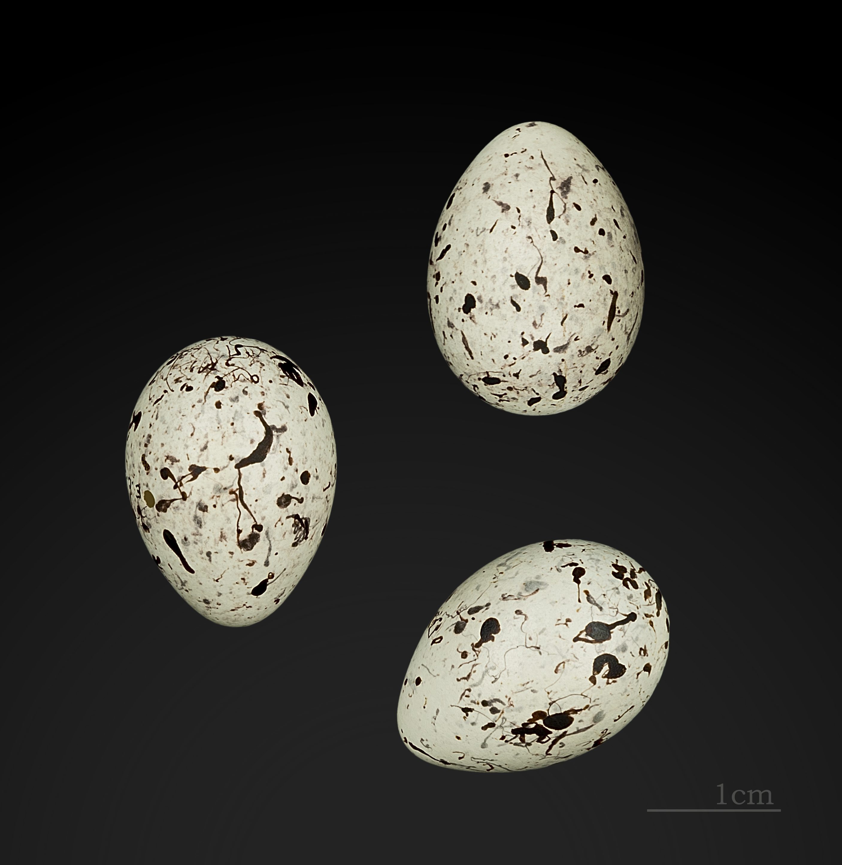 Egg of Cirl Bunting. Collection of Jacques Perrin de Brichambaut.